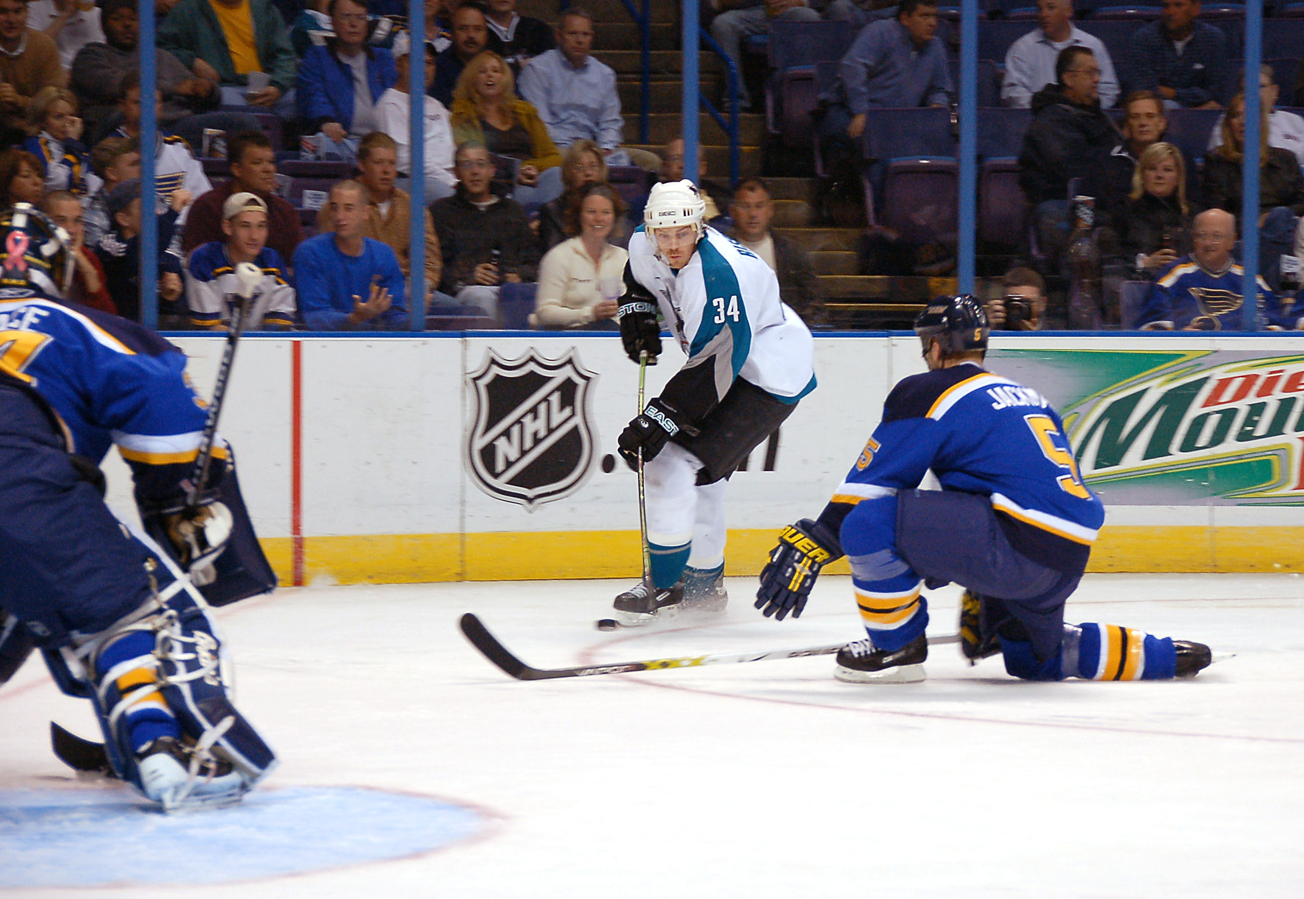 Patrick Rissmiller of San Jose Sharks in game vs.St. Louis Blues, shoots on Manny Legace, Barret Jackman trys to block the shot, November 28, 2006